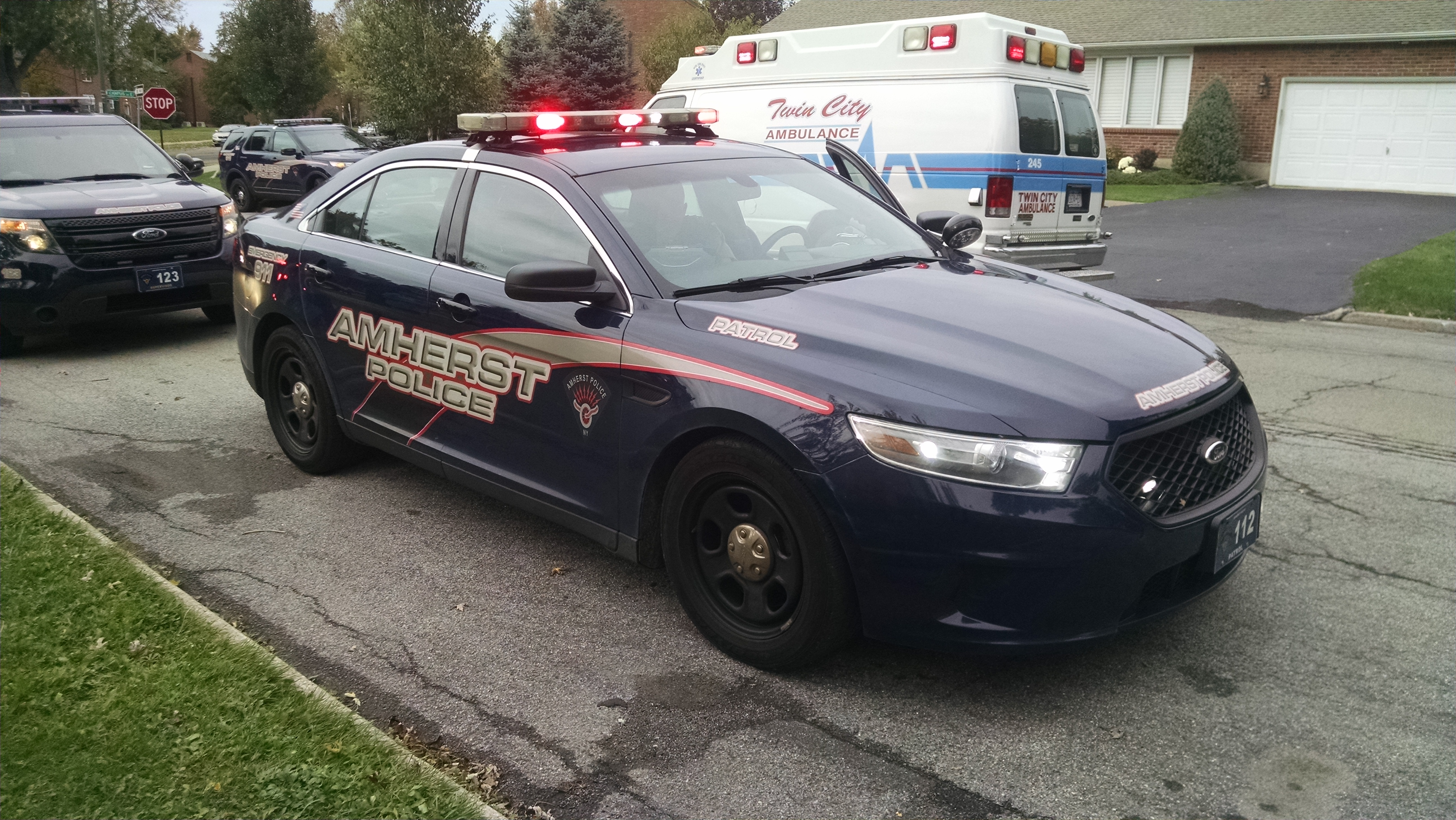 The Town of Amherst police was around Campus Manor and Daemen College because there was a SERIOUS accident right in Amherst, NY.